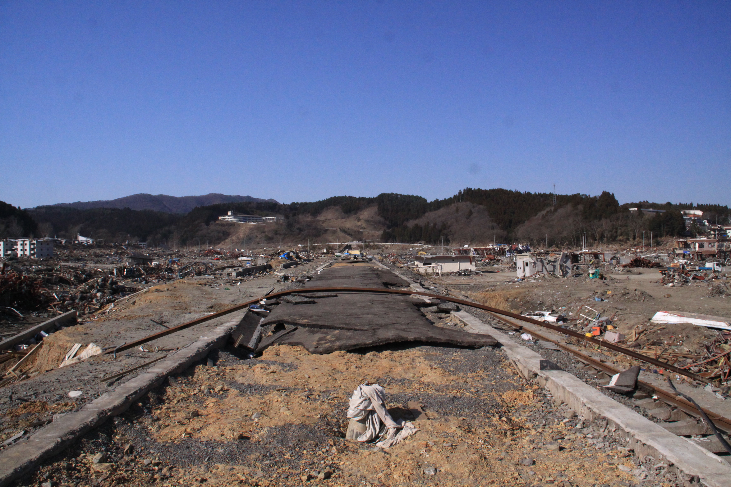 It takes a picture facing Kesennuma on the platform at Shizugawa Station in Minamisanriku, Miyagi. The station building that is sure to exist under the bank at the right side (sea side) of this image has flowed out.